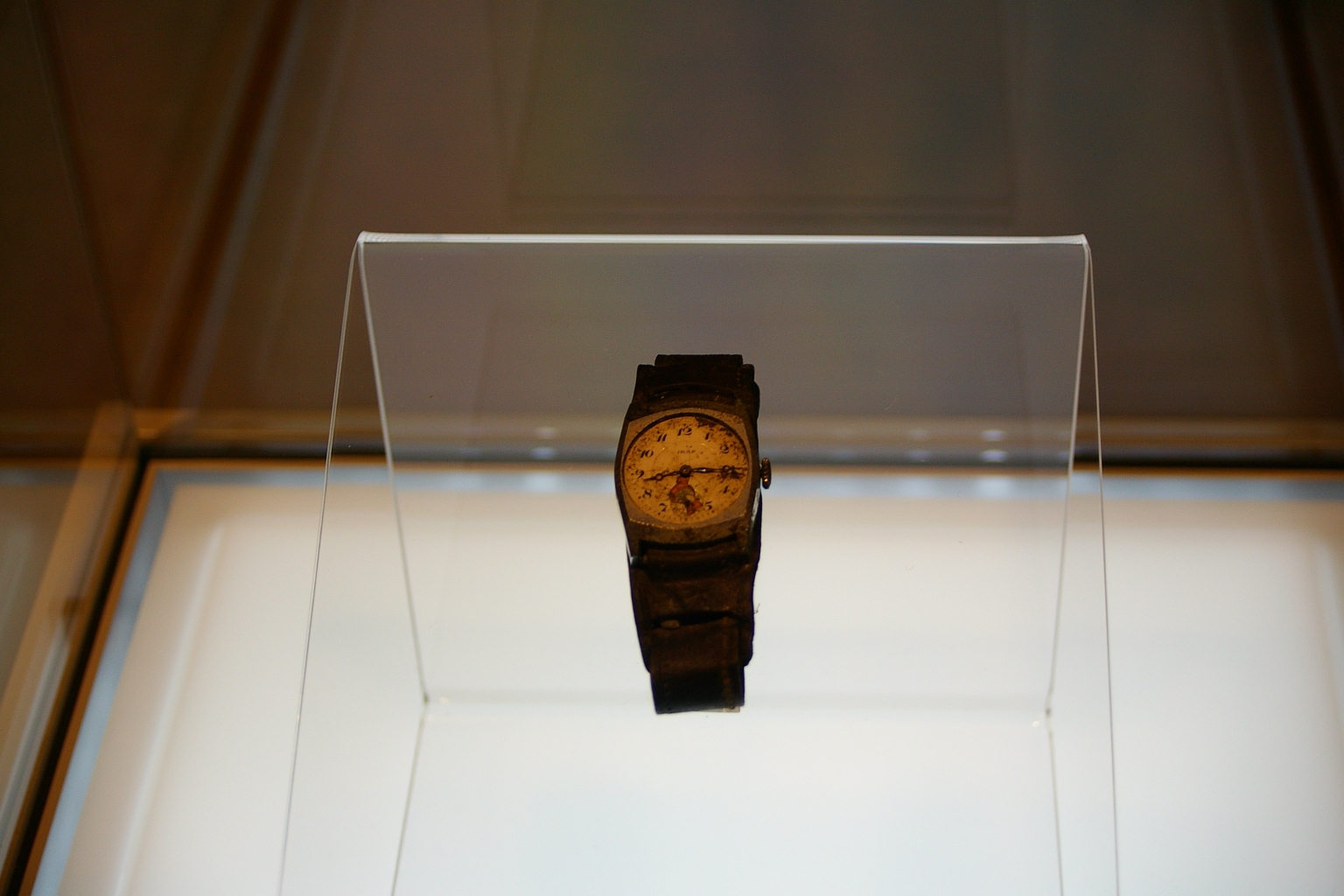 the watch stopping at the time the atomic bomb fallen 1945.8.6 (Hiroshima Peace Memorial museum)